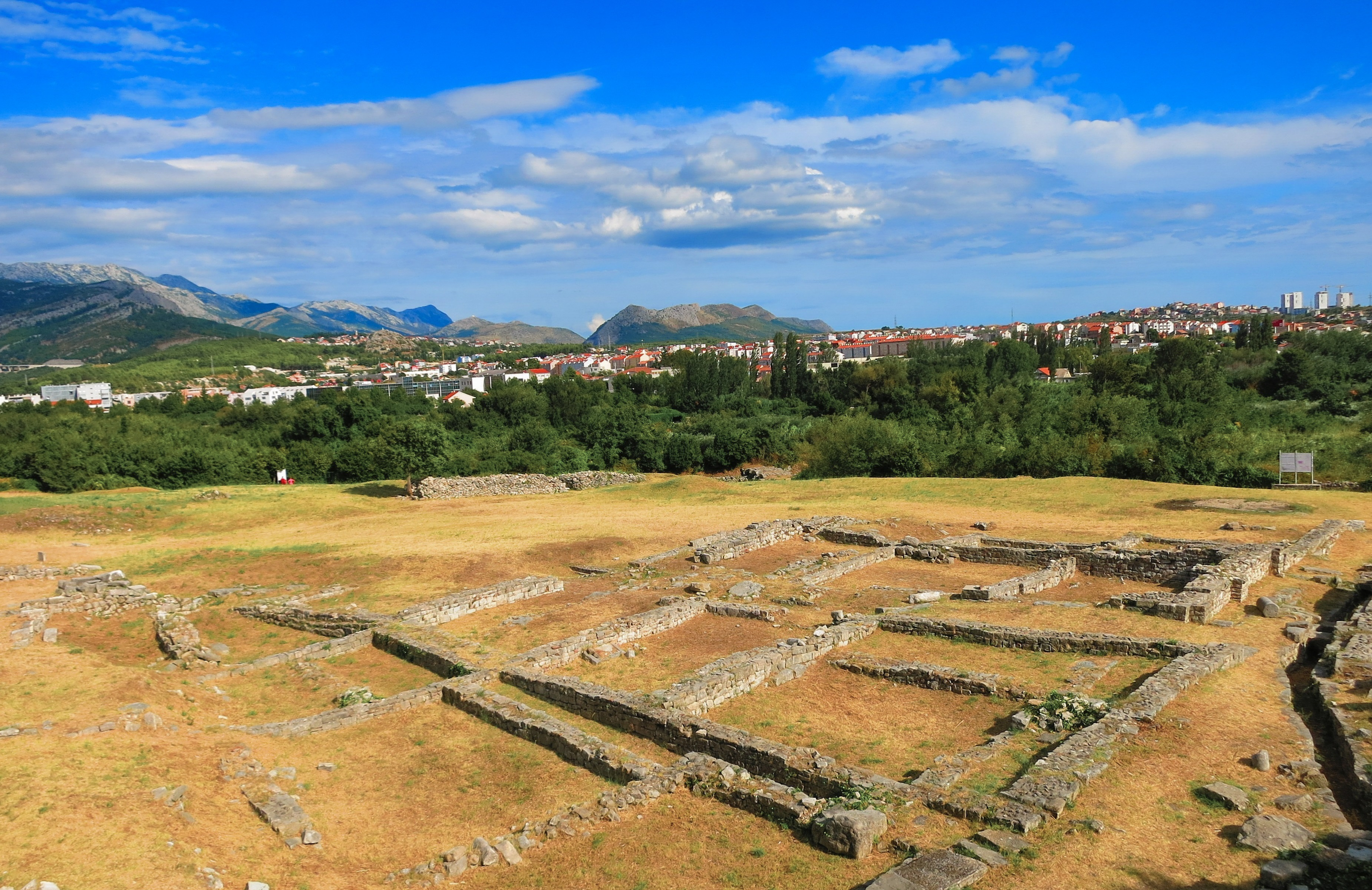 Foreground: Salona Archaeological Park; background: Split. (Croatia)